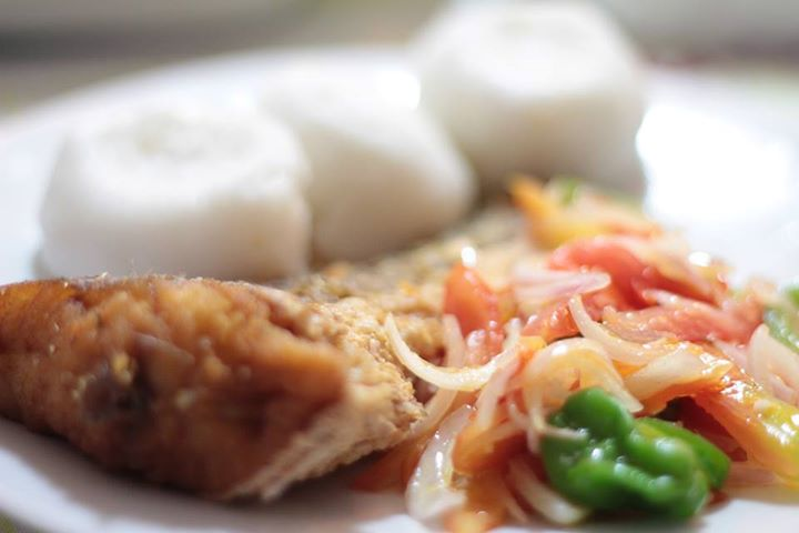 This is an image of food from Benin